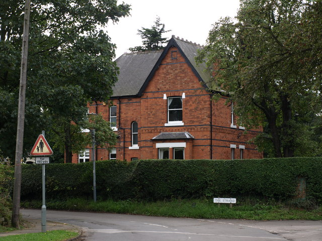 House in Attenborough At the corner of the Strand and Church Lane